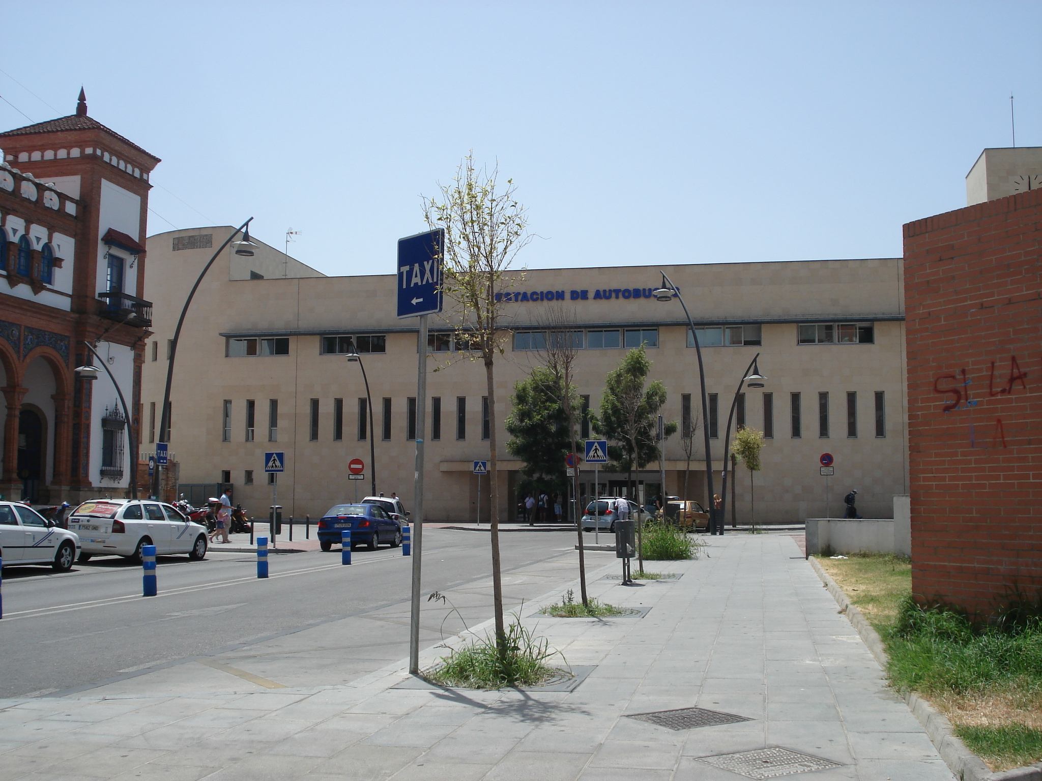 Jerez de la Frontera bus station